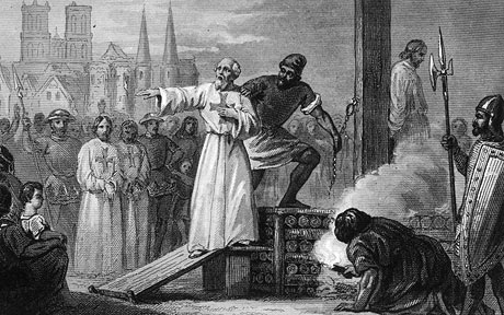 Jacques de Molay saying, he is innocent